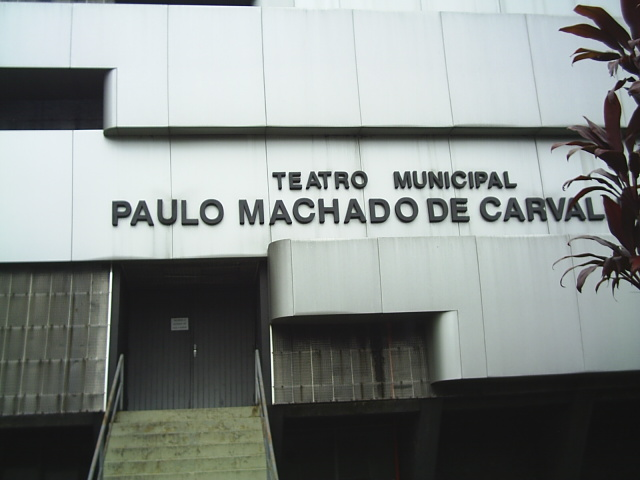 Theater in São Caetano do Sul.